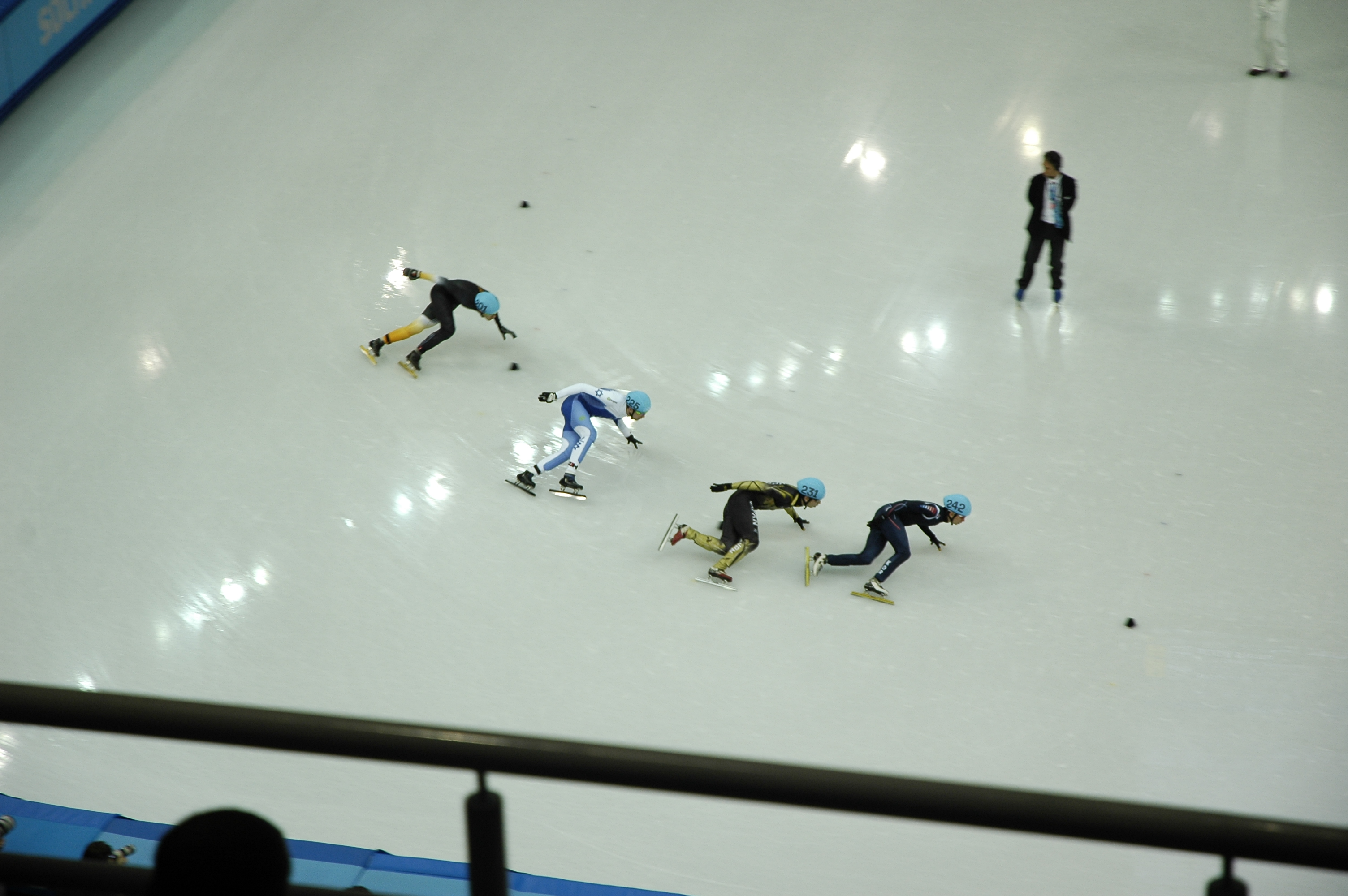 Men's 500m short track, 2014 Winter Olympics, heat 1 1 Park Se-yeong South Korea 41.566 Q 2 Satoshi Sakashita Japan 41.629 Q 3 Vladislav Bykanov Israel 41.769 4 Pierre Boda Australia 42.702